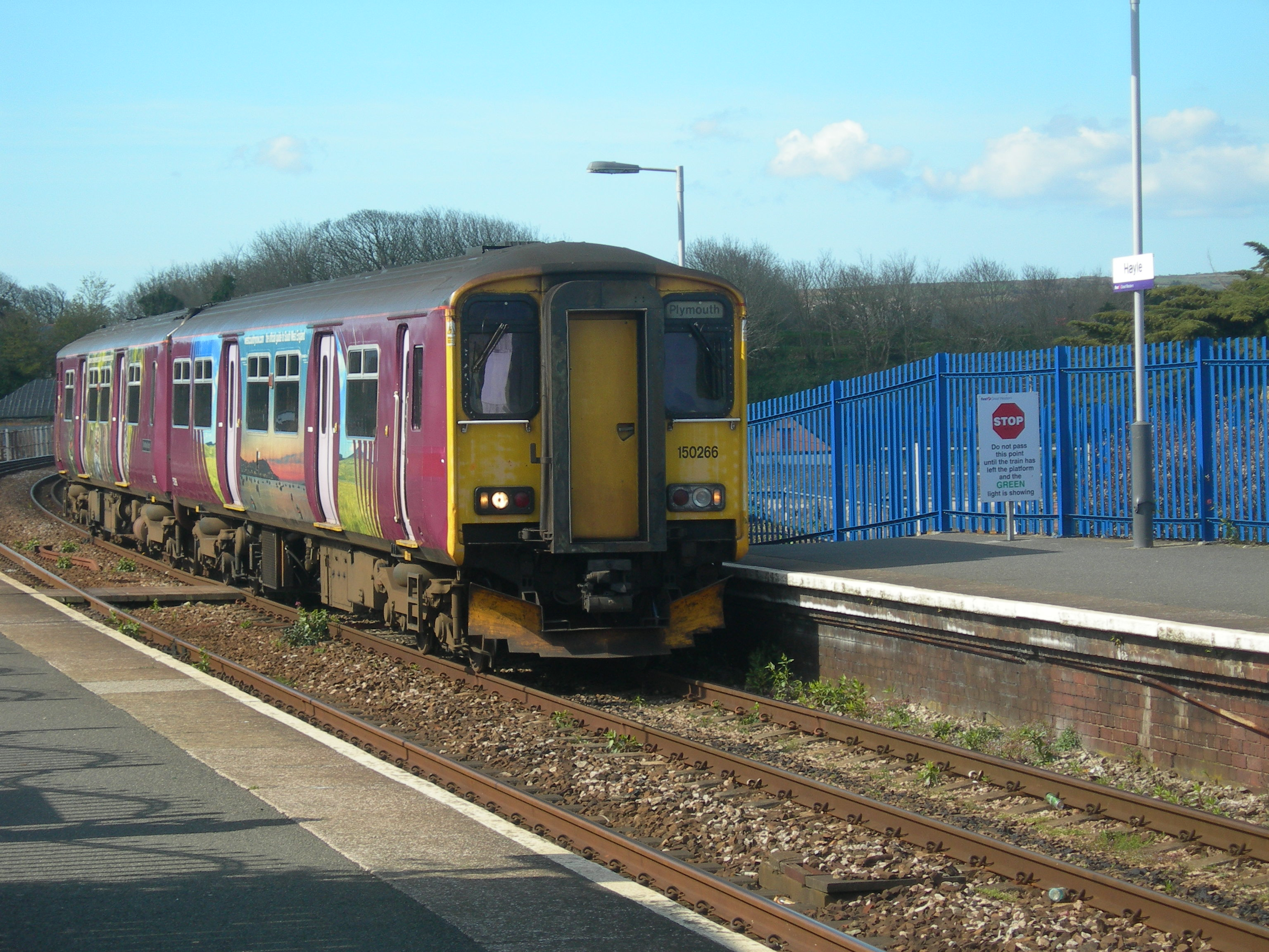 A class 150 train pulls into Hayle railway station, heading for Plymouth in April 2008.